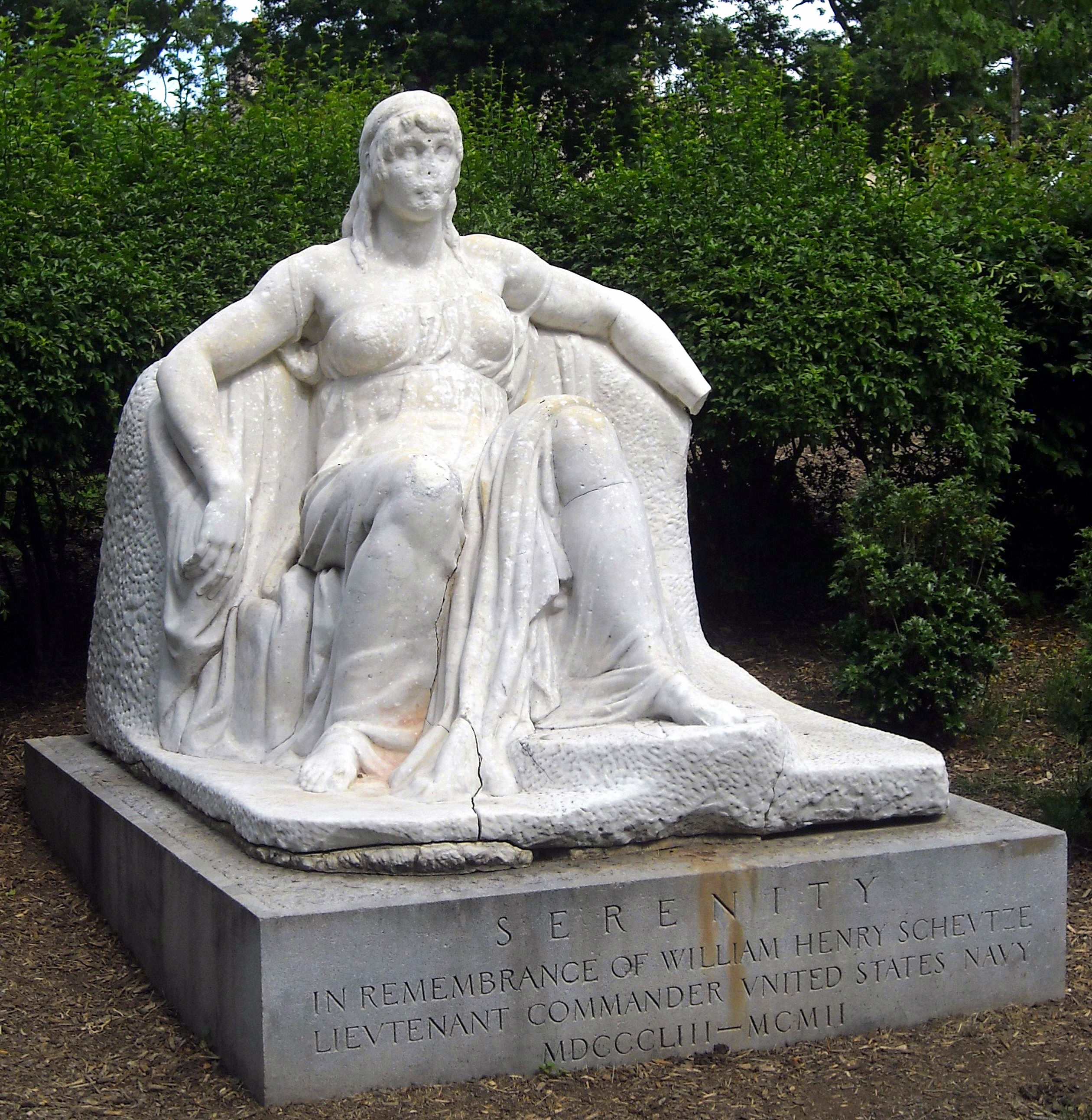 Serenity located at Meridian Hill Park in the Columbia Heights neighborhood of Washington, D.C. It was sculpted by Jose Clara and dedicated on March 12, 1924. The marble statue is in memory of Lieutenant Commander William H. Scheutz.